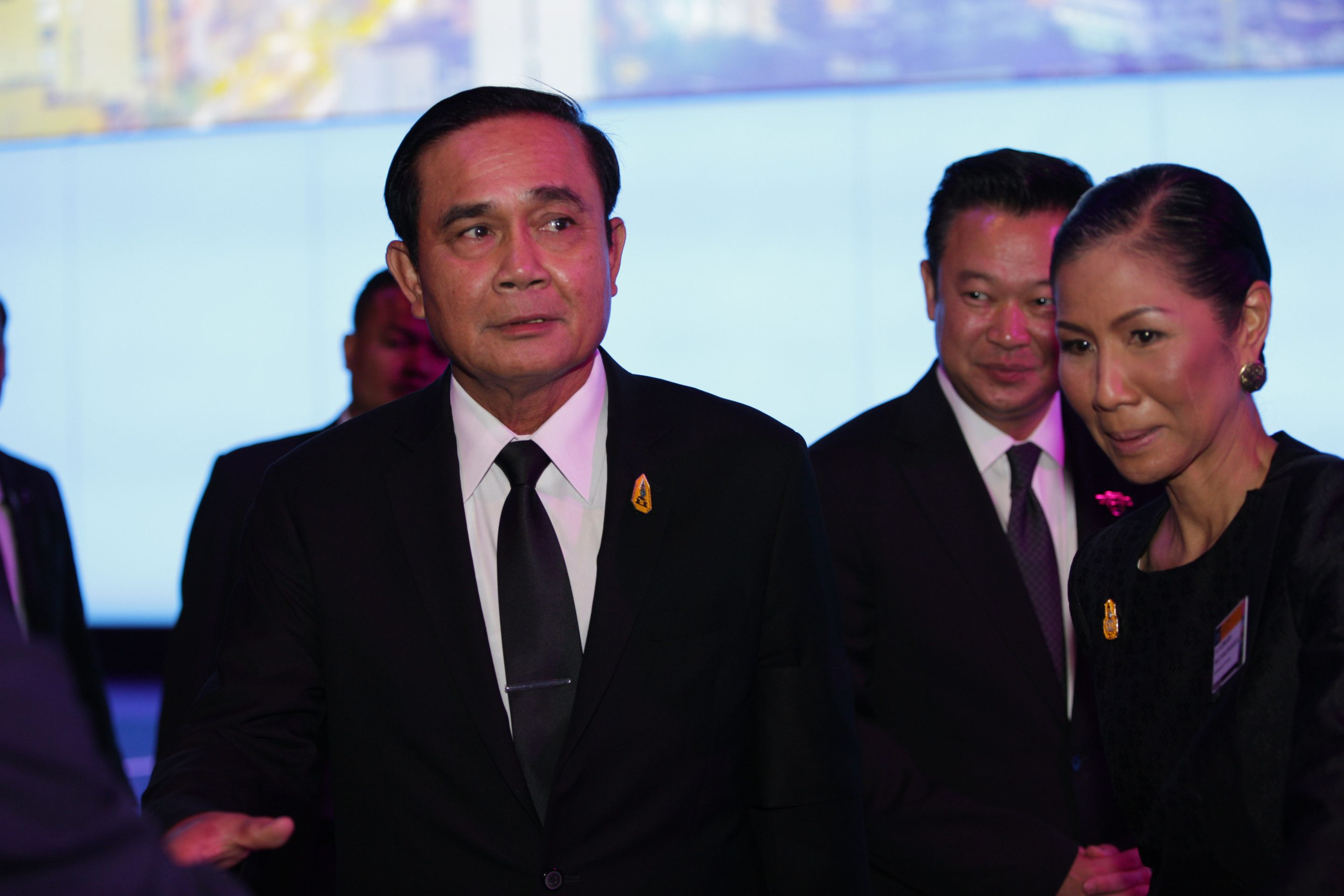 H.E. General Prayut Chan-o-cha, Prime Minister, Kingdom of Thailand & H.E. Kobkarn Wattanavrangkul, Minister of Tourism & Sports, Kingdom of Thailand WTTC Global Summit 2017